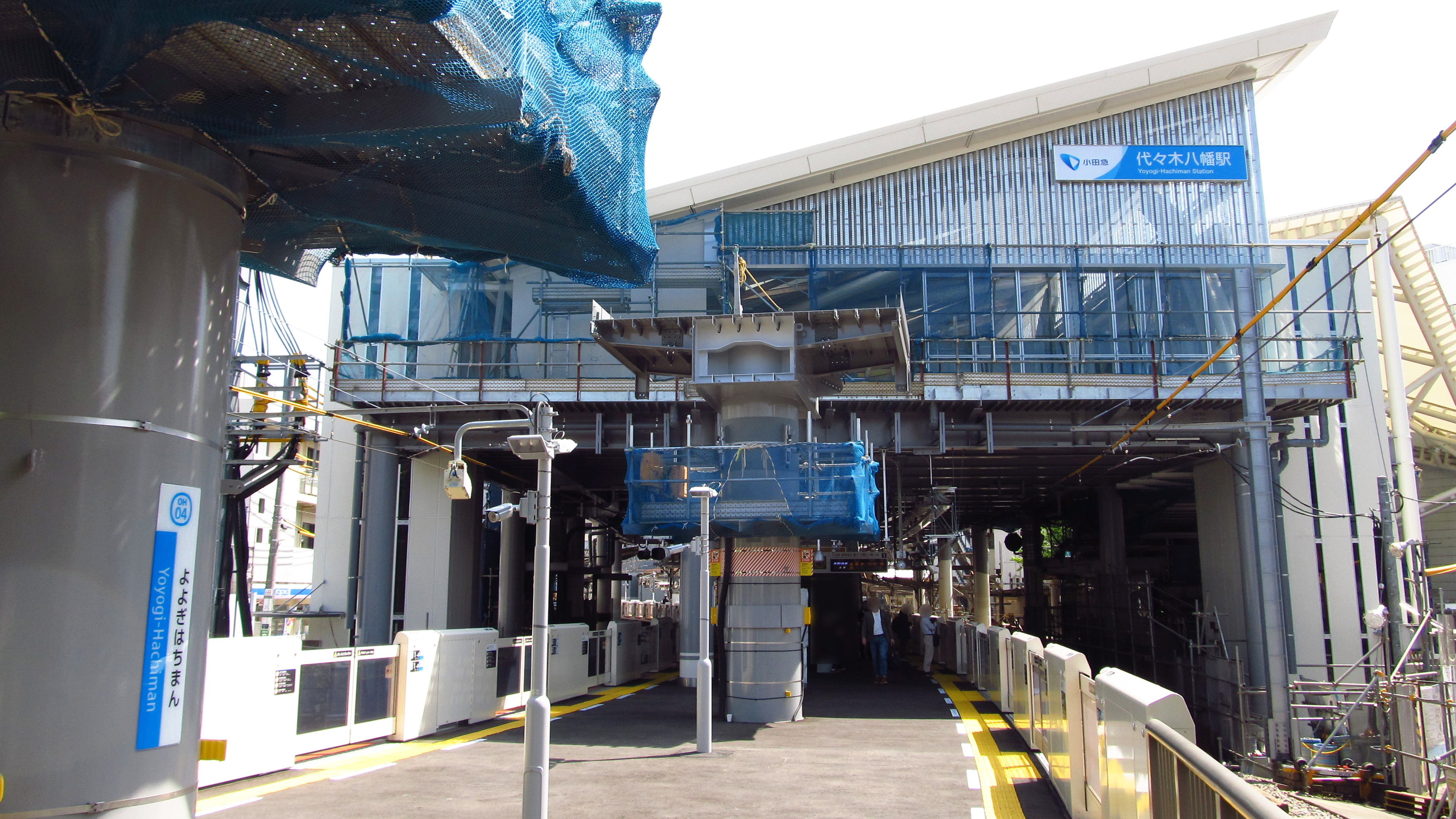 The platform at Yoyogi-Hachiman Station on the Odakyū Electric Railway Odawara Line in Shibuya city, Tokyo, Japan